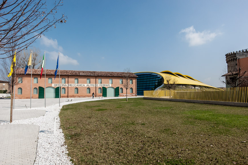 The Enzo Ferrari museum in Modena